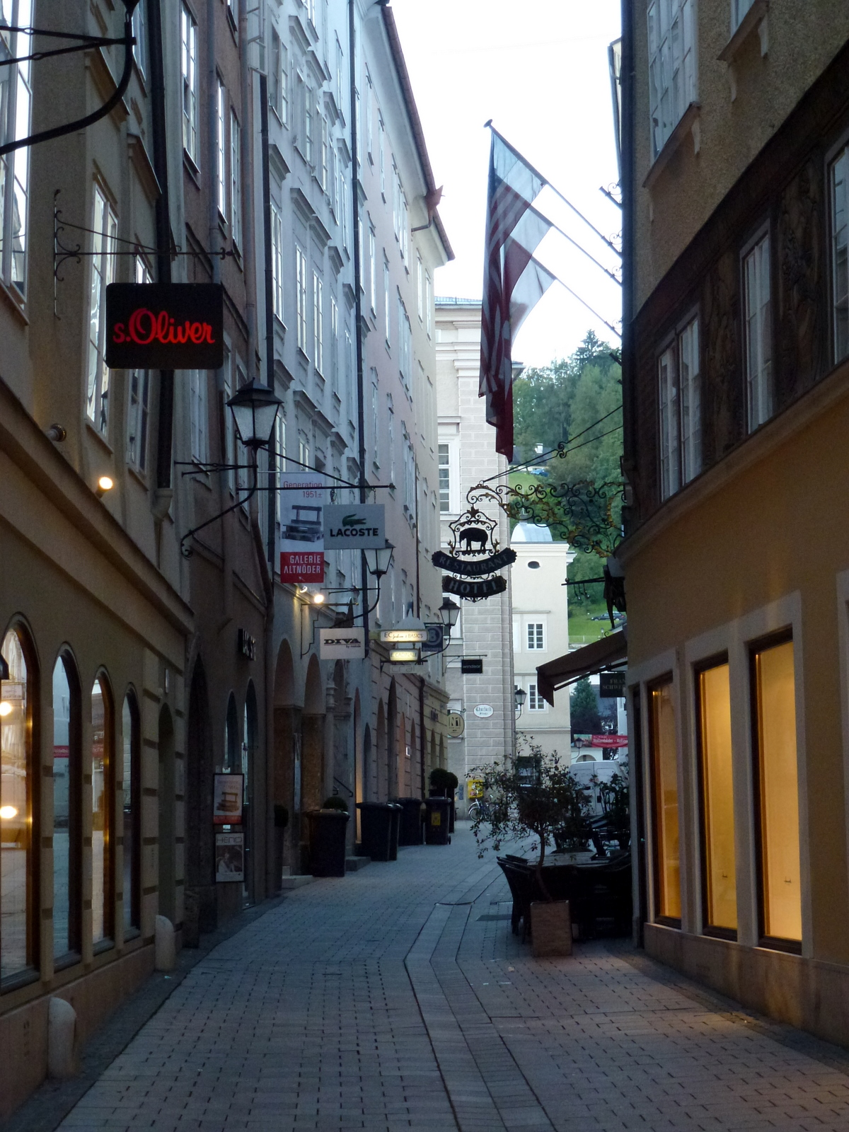 Sigmund-Haffner-Gasse in Salzburg